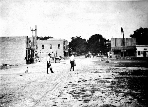 Mcclenny around 1908